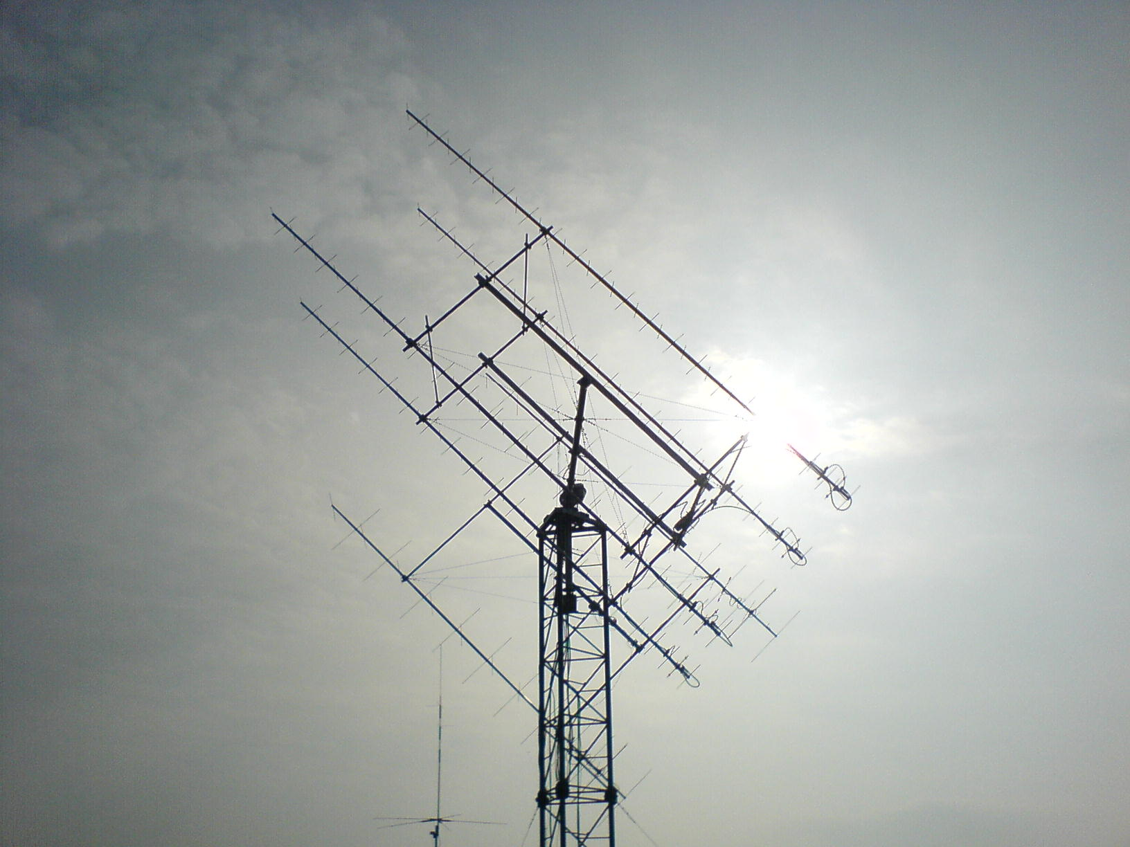 Yagi turnstile array antenna built by a radio amateur for satellite communication over the SwissCube amateur satellite launched by the Ecole Polytechnique Fédérale de Lausanne, in Switzerland.